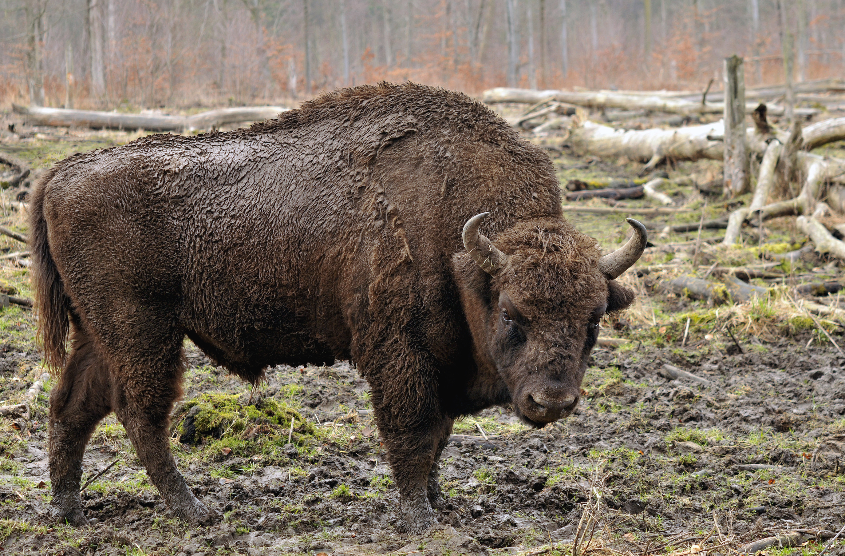 Wisent in the Wisentgehege Springe game park near Springe, Hanover, Germany. The European bison or wisent (Bison bonasus) is the heaviest of the surviving land animals in Europe, with males growing to around 1,000 kg (2,200 lb). European bison were hunted to extinction in the wild, but have since been reintroduced from captivity into several countries. This male is moulting, his winter coat coming off in clumps.